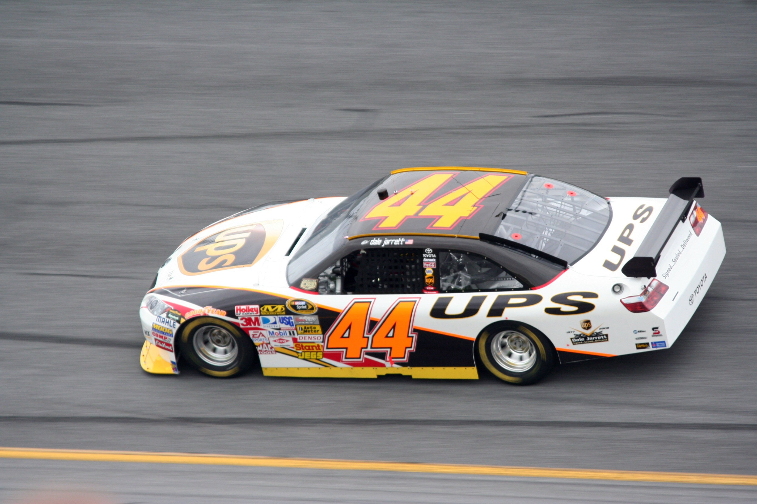 Shot by The Daredevil at Daytona during Speedweeks 2008Dale Jarrett UPS Toyota Camry